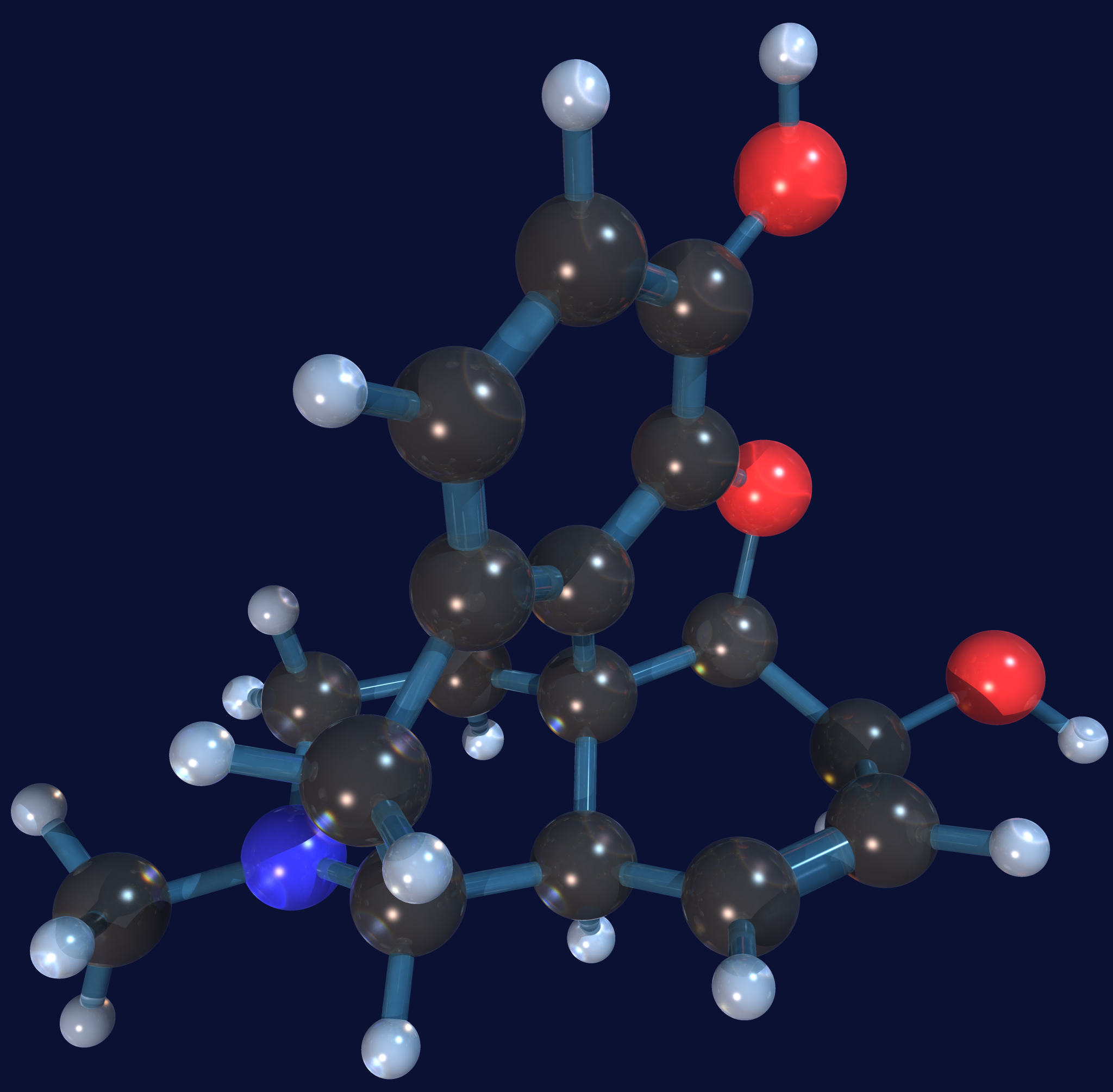 Ball-and-stick model of Morphine molecule